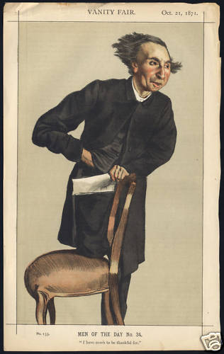 Caricature of Charles Voysey (1828-1912). Caption read "I have much to be thankful for".